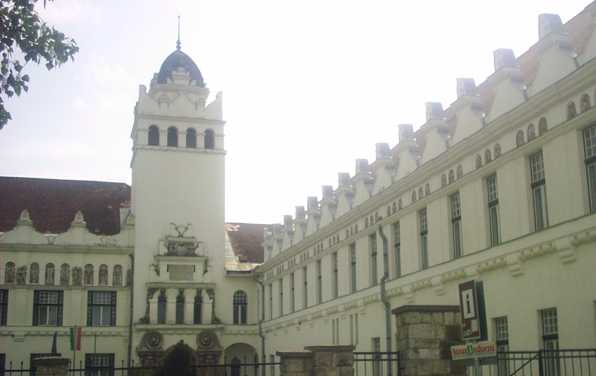 College of Sárospatak, by Jenő Lechner.